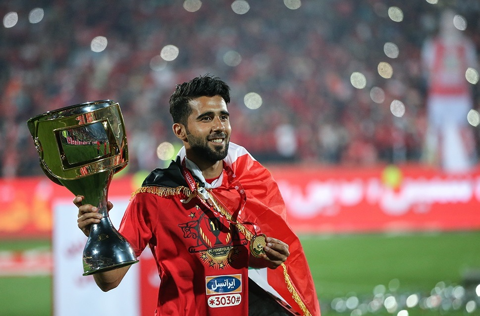 Bashar Resan In Persepolis Championship Celebration (Azadi Stadium)